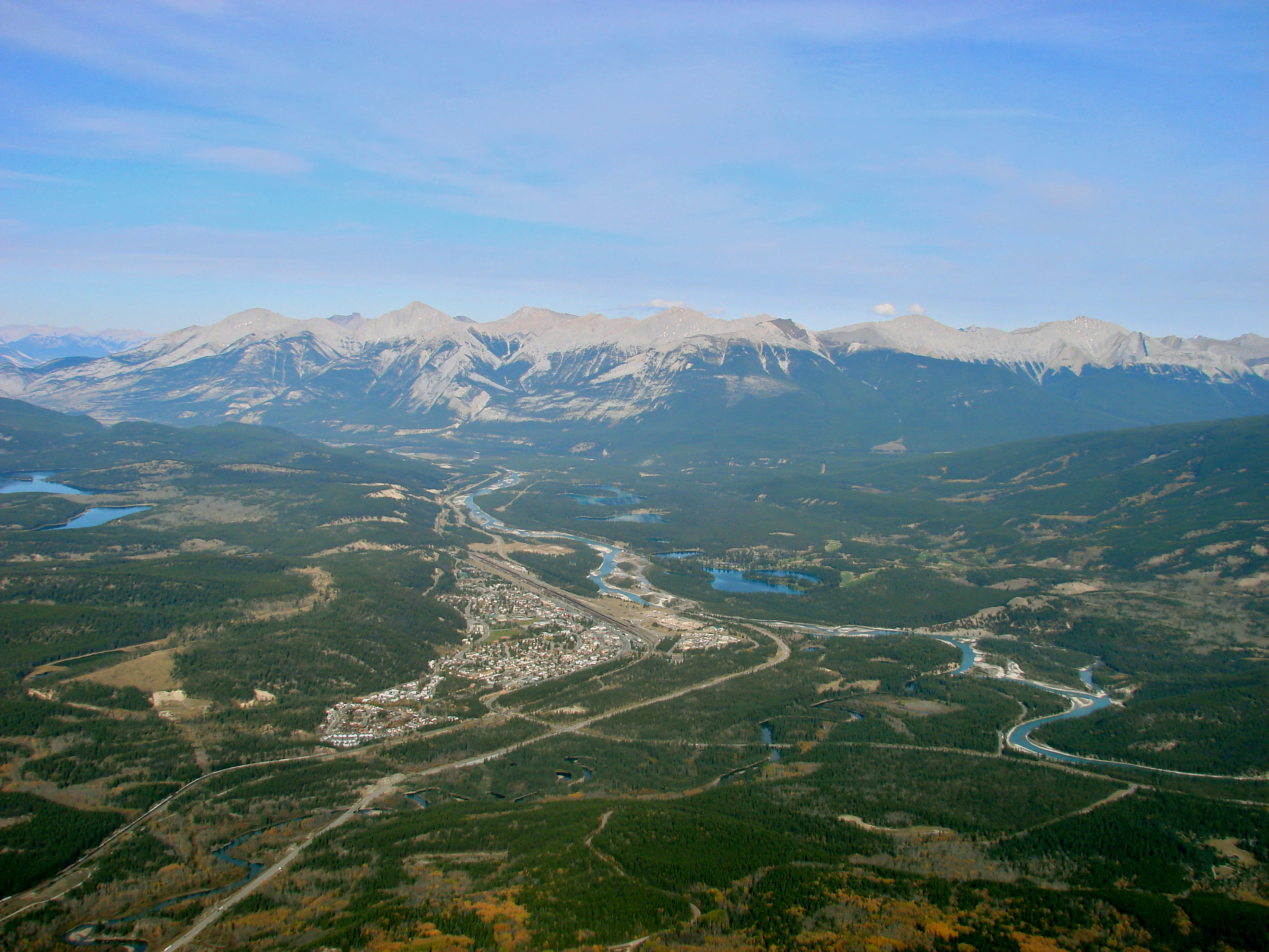 Taken by Ryan Shepherd on Oct 3rd 2006, at Whistler's Mountain in Alberta, Canada.